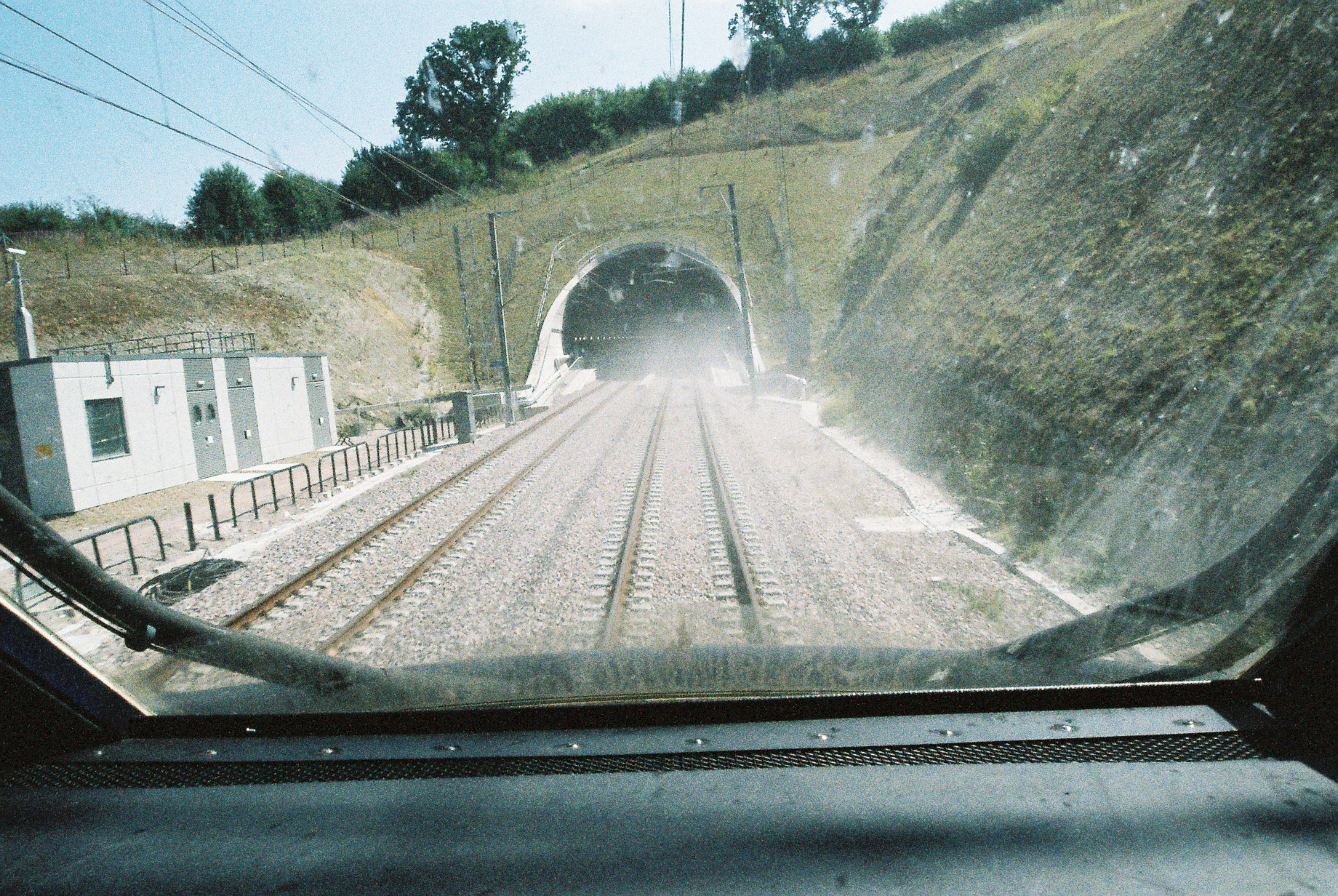 Still a lot of dust was present in North Downs tunnel